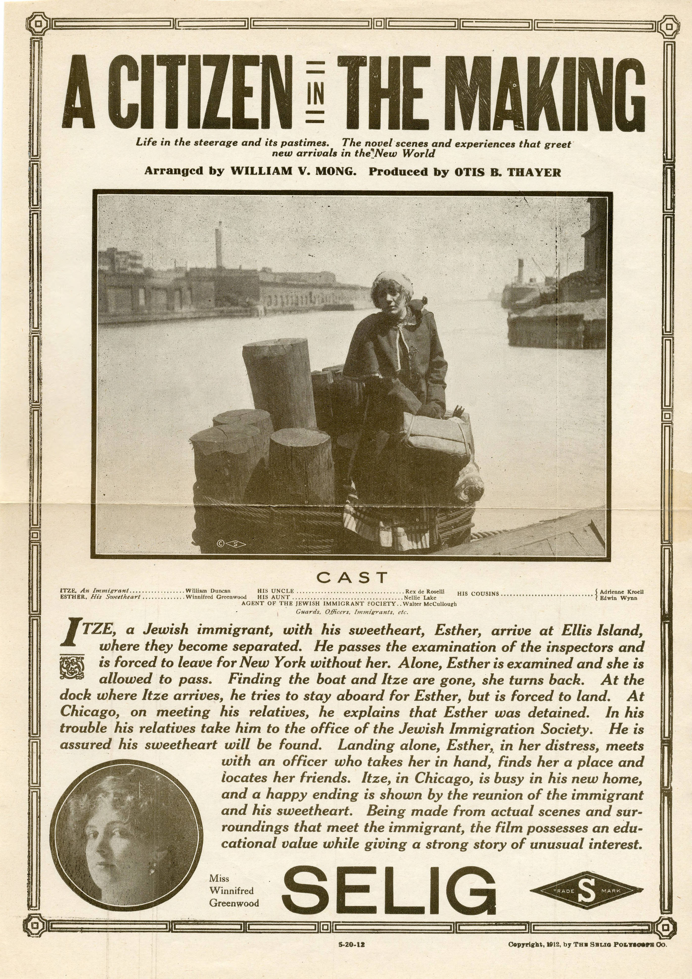 Release flier for A CITIZEN IN THE MAKING, 1912